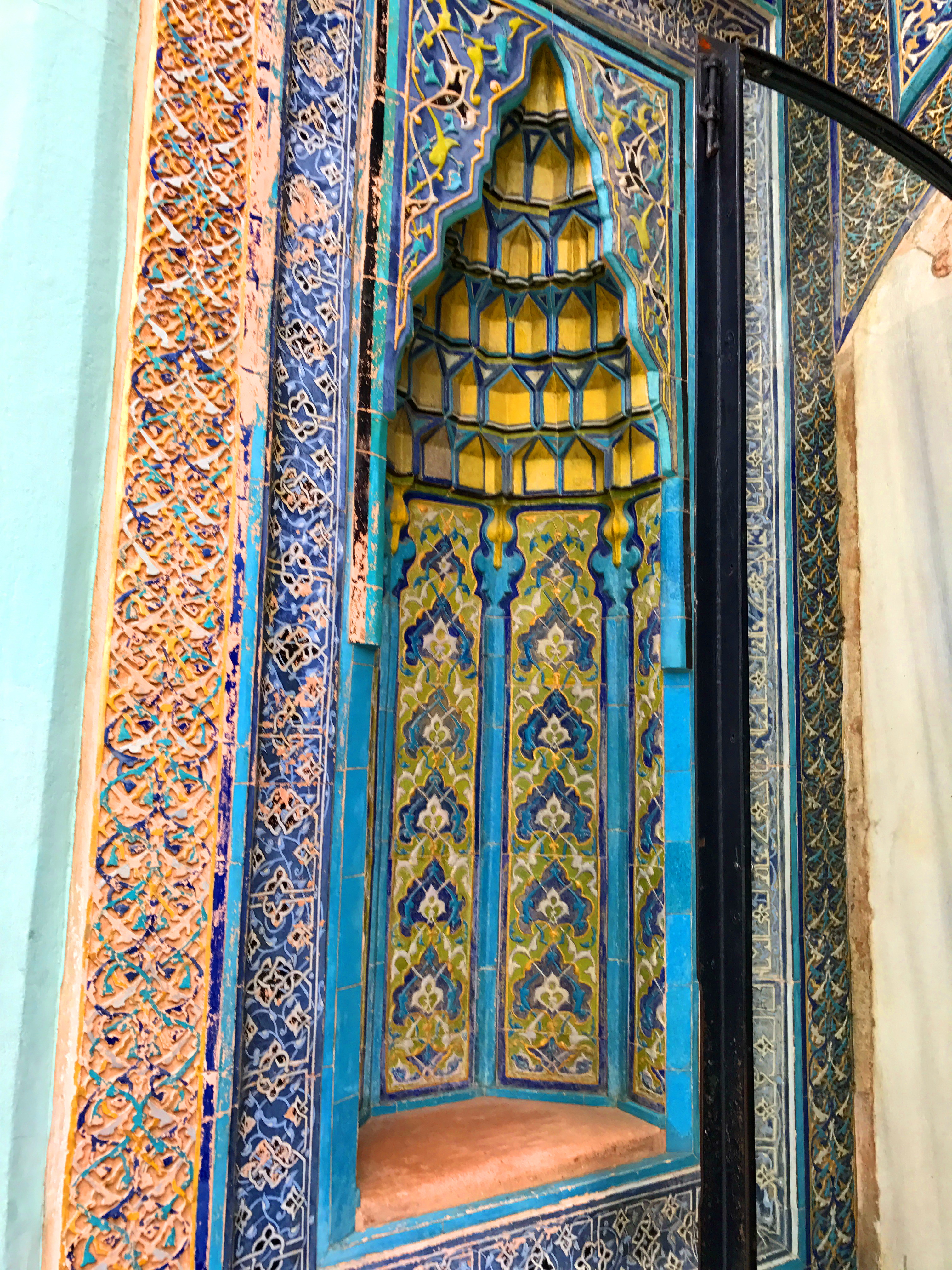 The Green Tomb (Yeşil Türbe) is a mausoleum of the fifth Ottoman Sultan, Mehmed I, in Bursa, Turkey. It was built by Mehmed's son and successor Murad II following the death of the sovereign in 1421. The architect, Hacı Ivaz Pasha designed the tomb and the Yeşil Mosque opposite to it